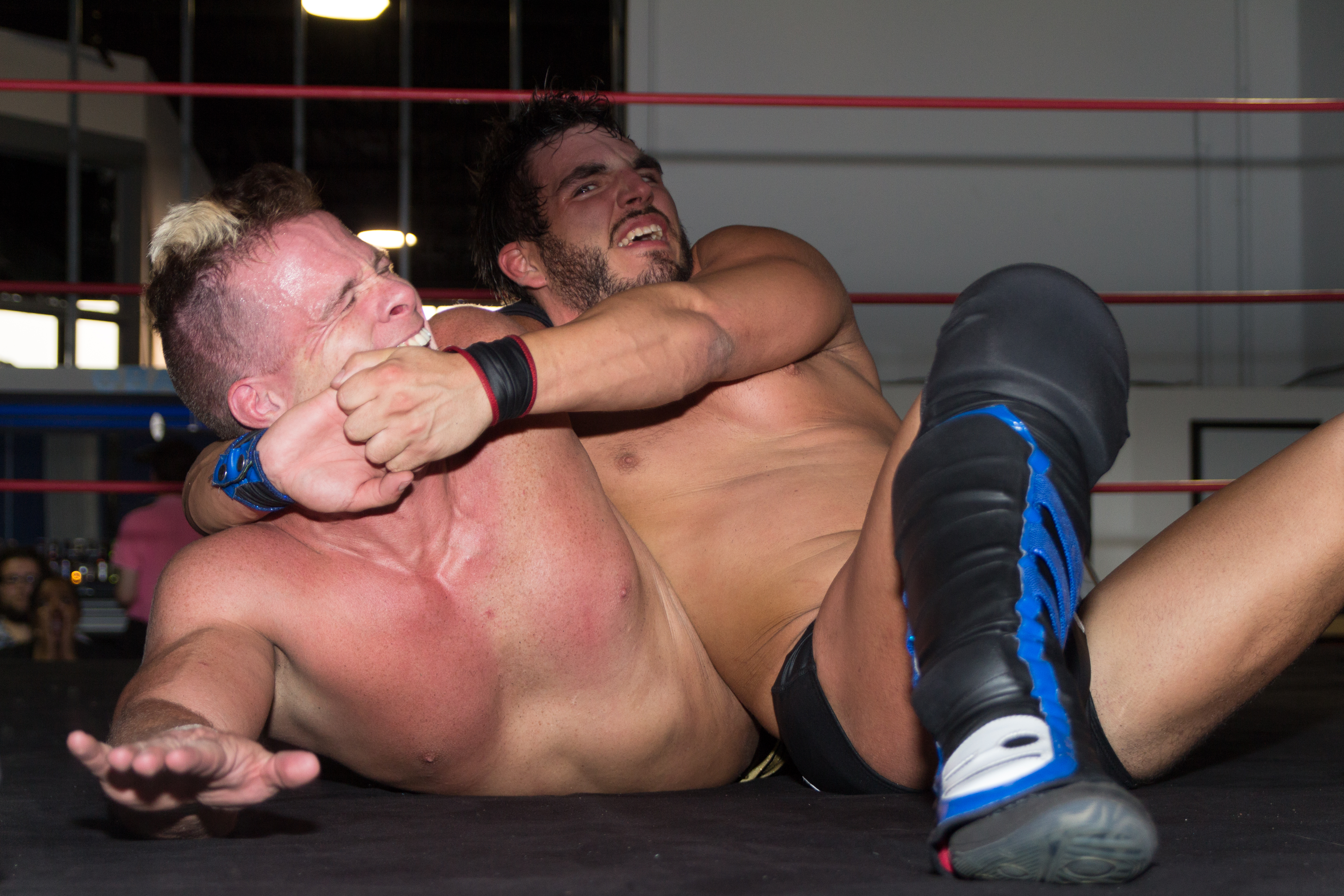 Johnny Gargano applying a chickenwing over the shoulder crossface to Tyson Dux